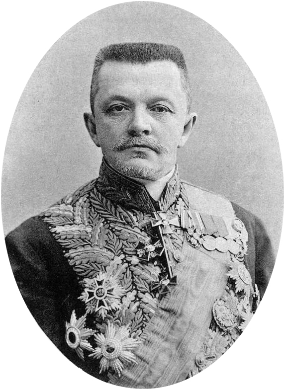 Nikolay Muraviev